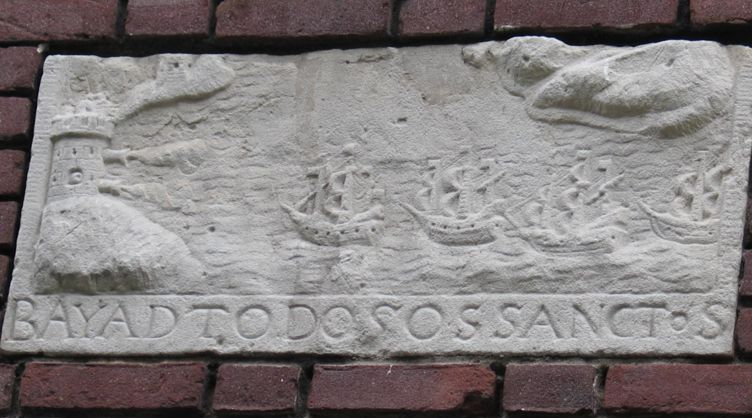 Gable stone